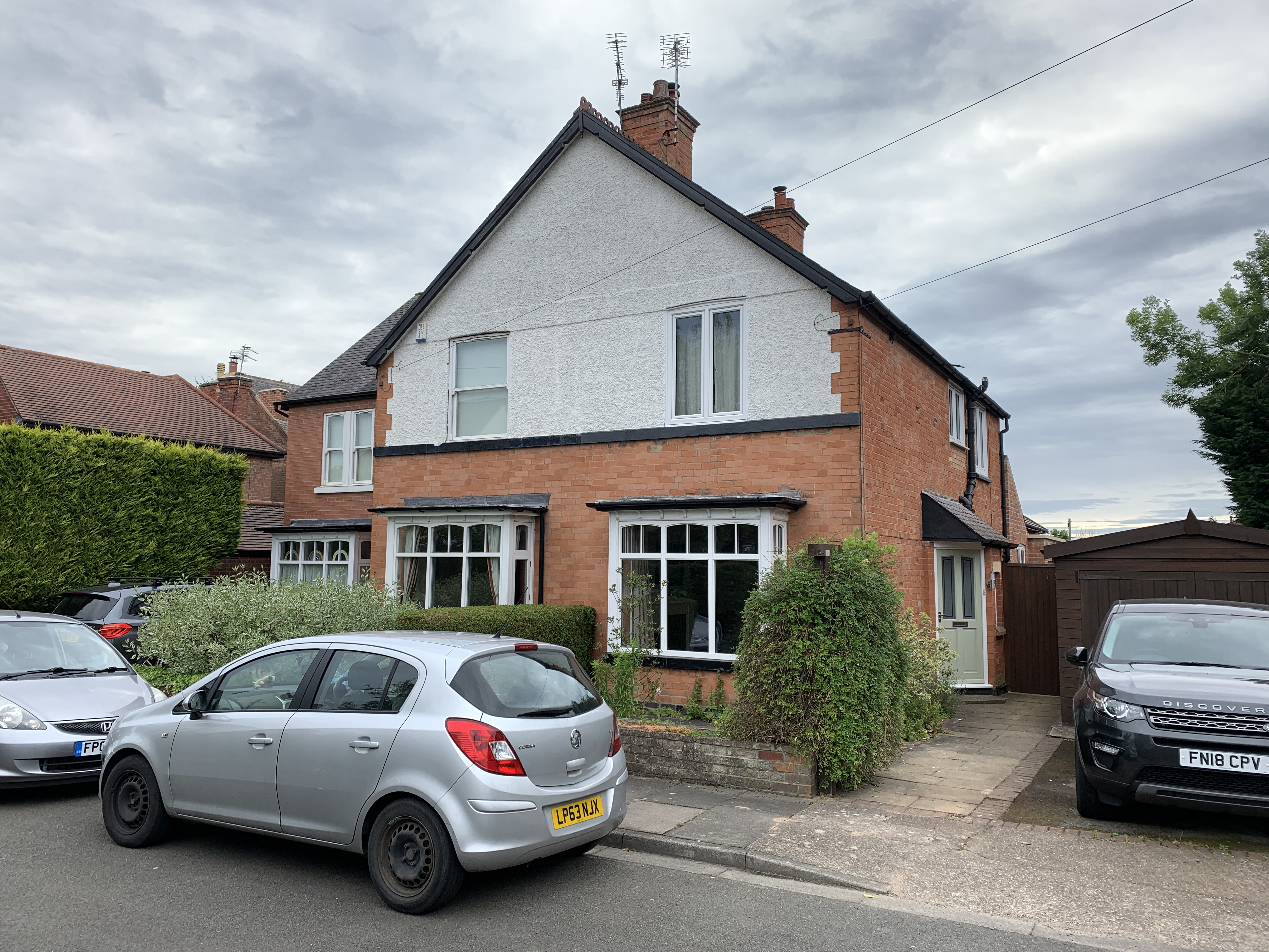 10-12 Ireton Street, Beeston 1904 by architect and builder Thomas Woolston